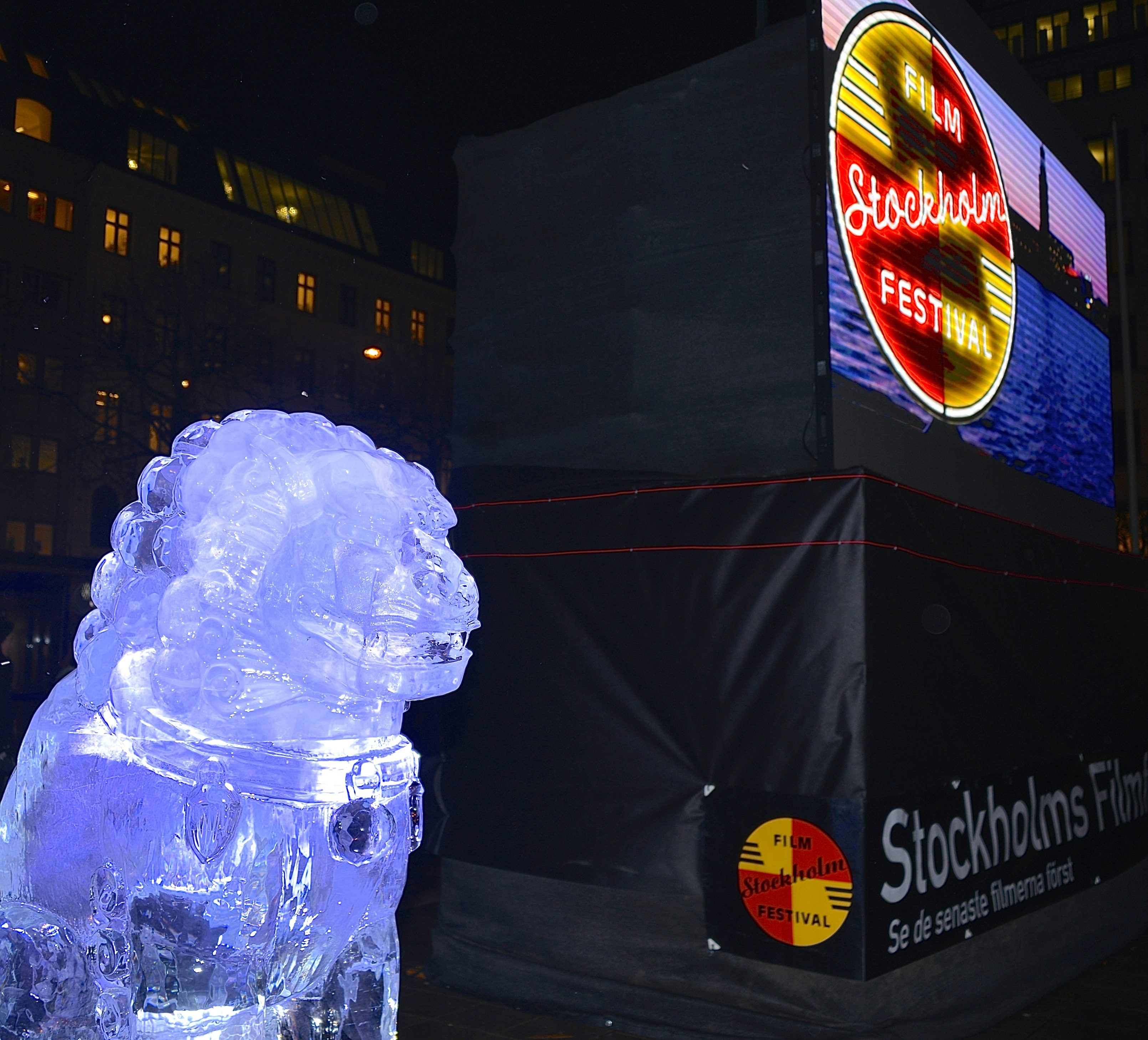 Ai Weiwei ice sculptures at Norrmalmstorg before the Stockholm International Film Festival 2014.